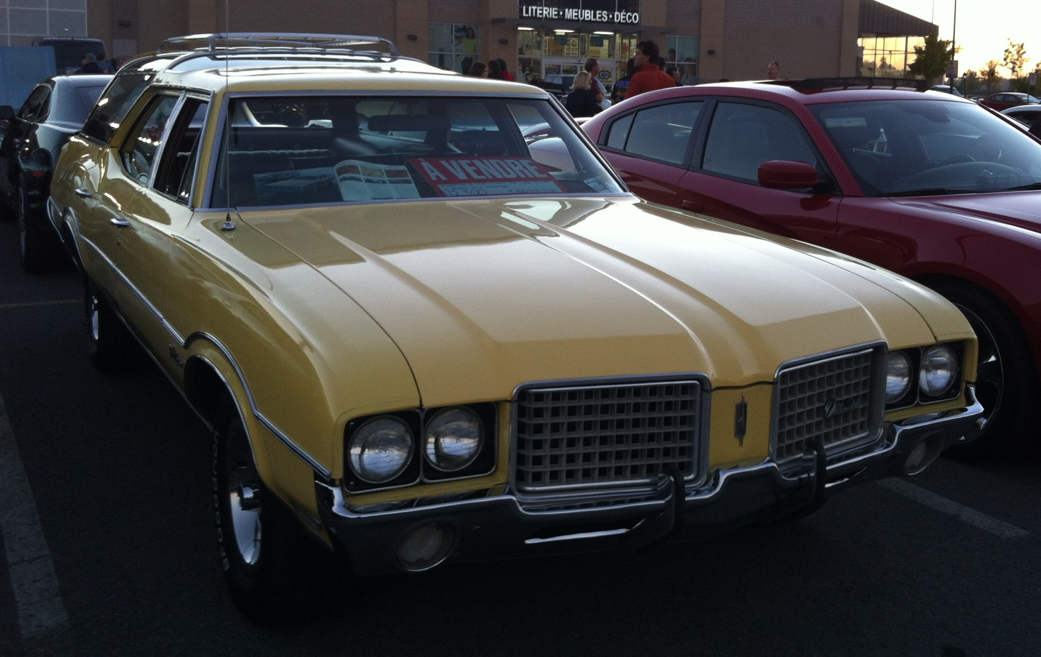 1972 Oldsmobile Vista Cruiser photographed in Laval, Quebec, Canada at Les chauds vendredis.